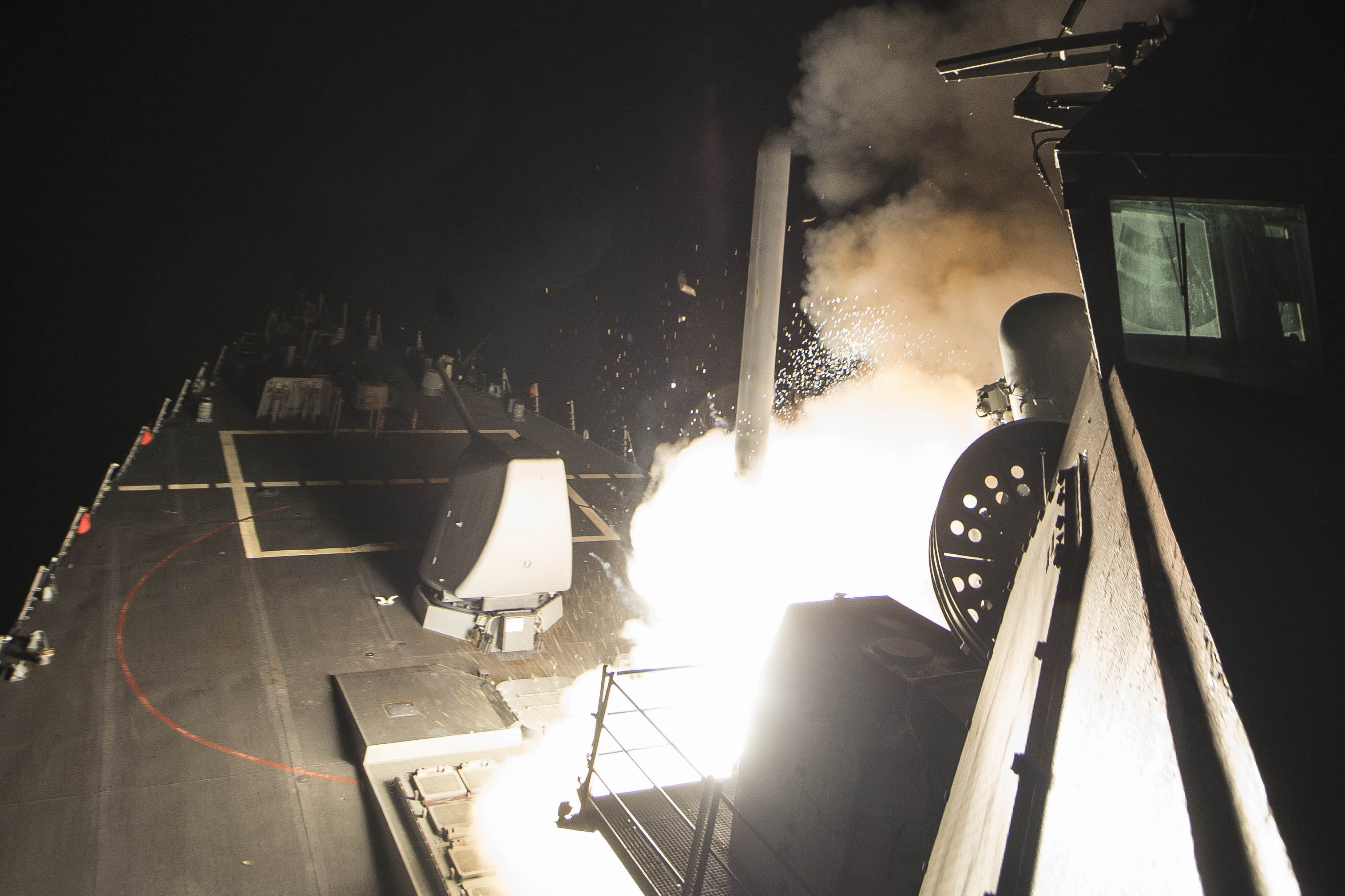 170407-N-FQ994-135 MEDITERRANEAN SEA (April 7, 2017) USS Ross (DDG 71) fires a tomahawk land attack missile April 7, 2017. USS Ross, an Arleigh Burke-class guided-missile destroyer, forward-deployed to Rota, Spain, is conducting naval operations in the U.S. 6th Fleet area of operations in support of U.S. national security interests in Europe and Africa. (U.S. Navy photo by Mass Communication Specialist 3rd Class Robert S. Price/Released)